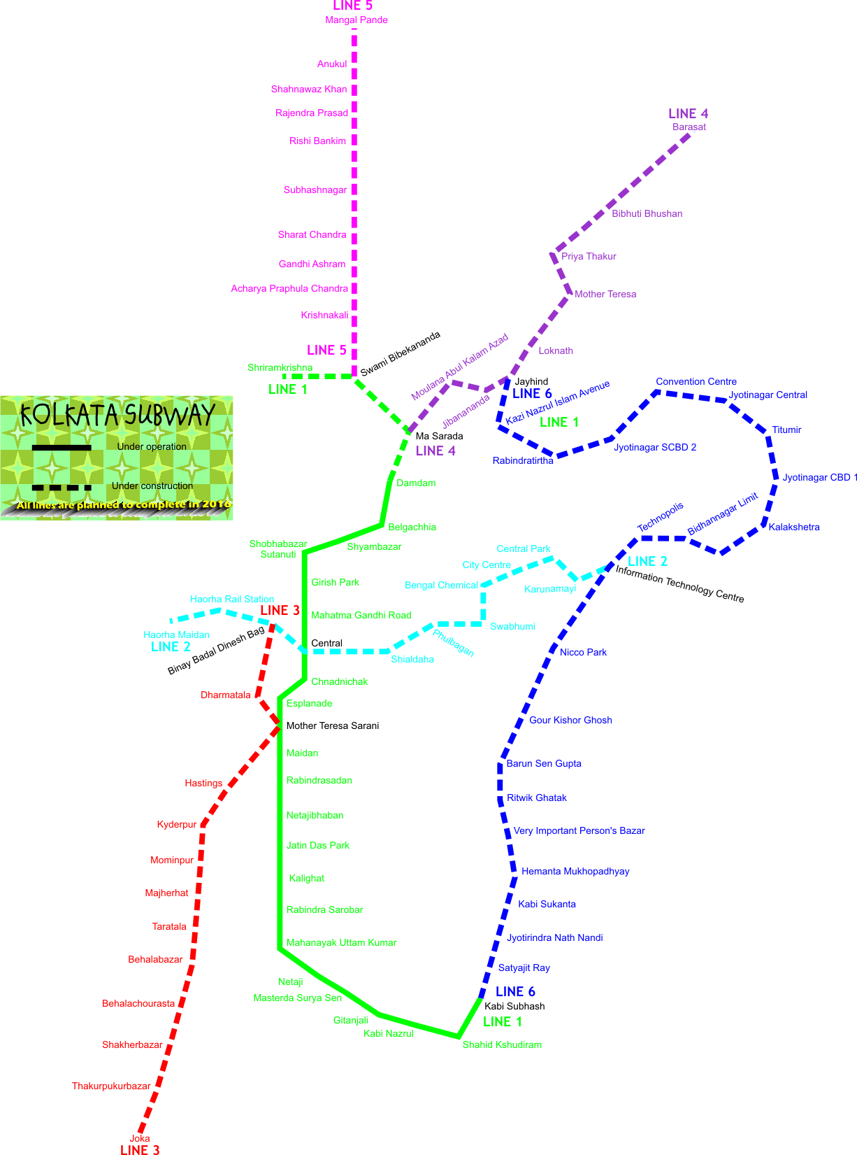 Latest Kolkata metro map with lines u/c